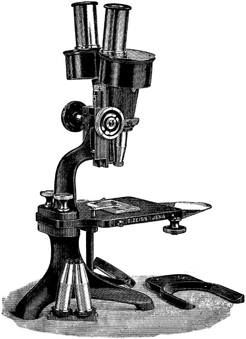 Ernst Abbe meets Horatio S. Greenough, an American biologist. Of course, they cannot help talking shop. Before long, the discussion is focused on a seemingly utopian idea: the construction of a stereoscopic microscope. Utopian? The idea is born under a lucky star. The American visitor draws a promising sketch on a sheet of paper. That's it. Around the turn of the year, Greenough's invention has taken shape as a ZEISS product: the first stereomicroscope ever.